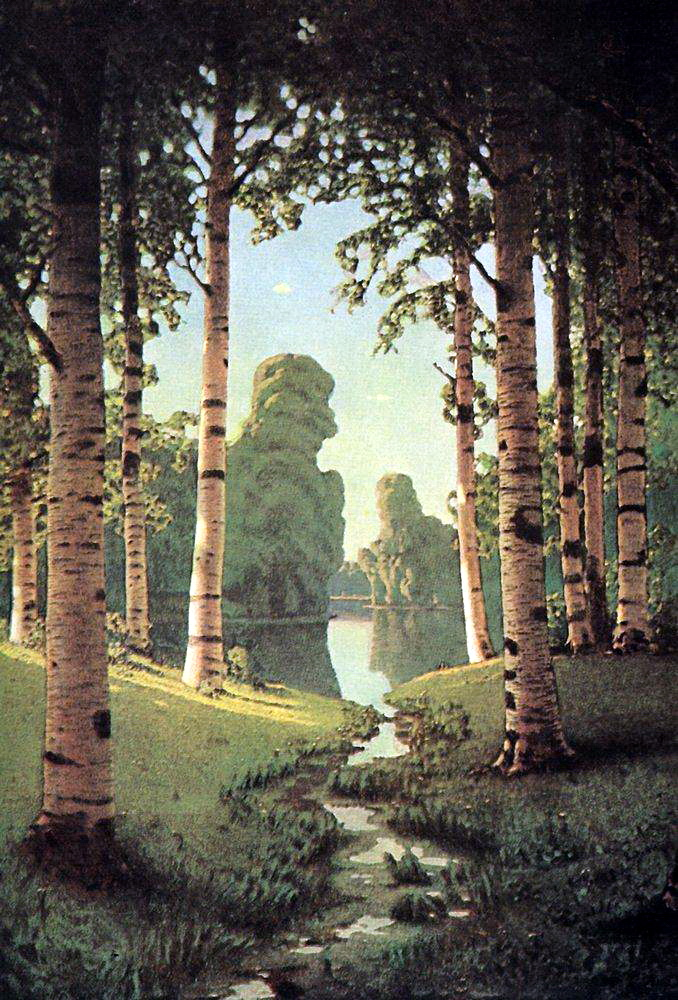 Birch grove (painting by Arkhip Kuindzhi, 1898-1908)